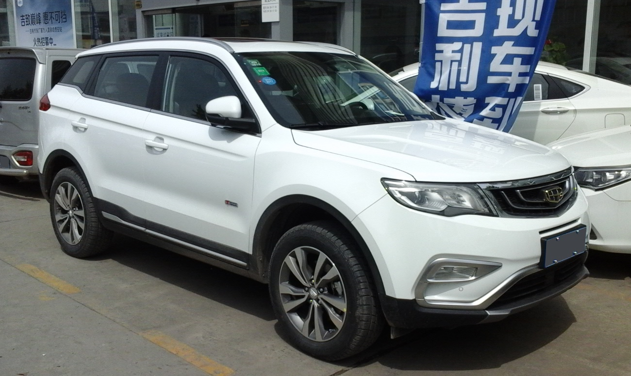 Geely Boyue photographed in Xi'an, Shaanxi province, China.